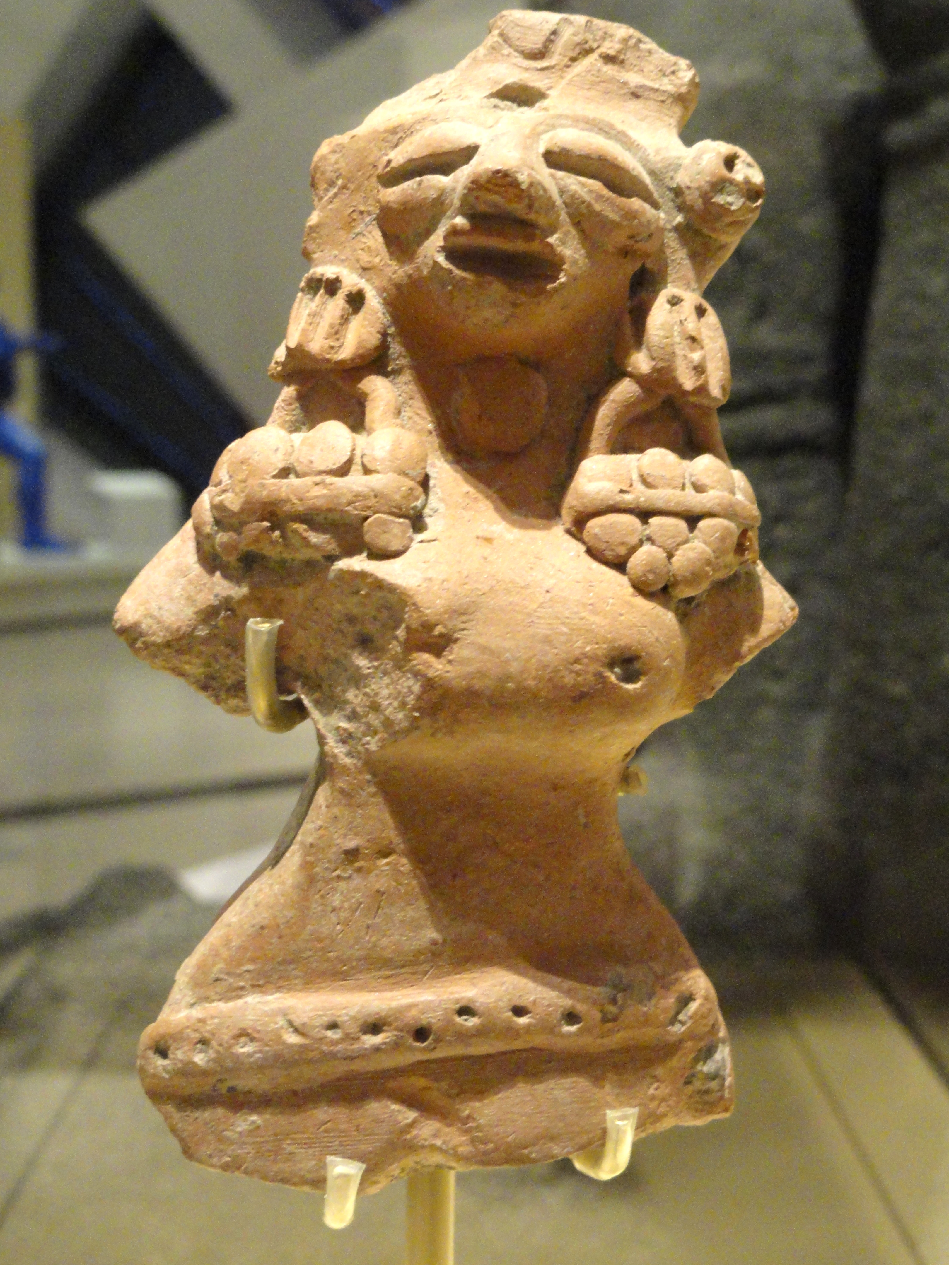 Exhibit in the Royal Ontario Museum, Toronto, Ontario, Canada. This exhibit is old enough so that it is in the public domain, and photography was permitted in the museum. I took this photograph and release it into the public domain.